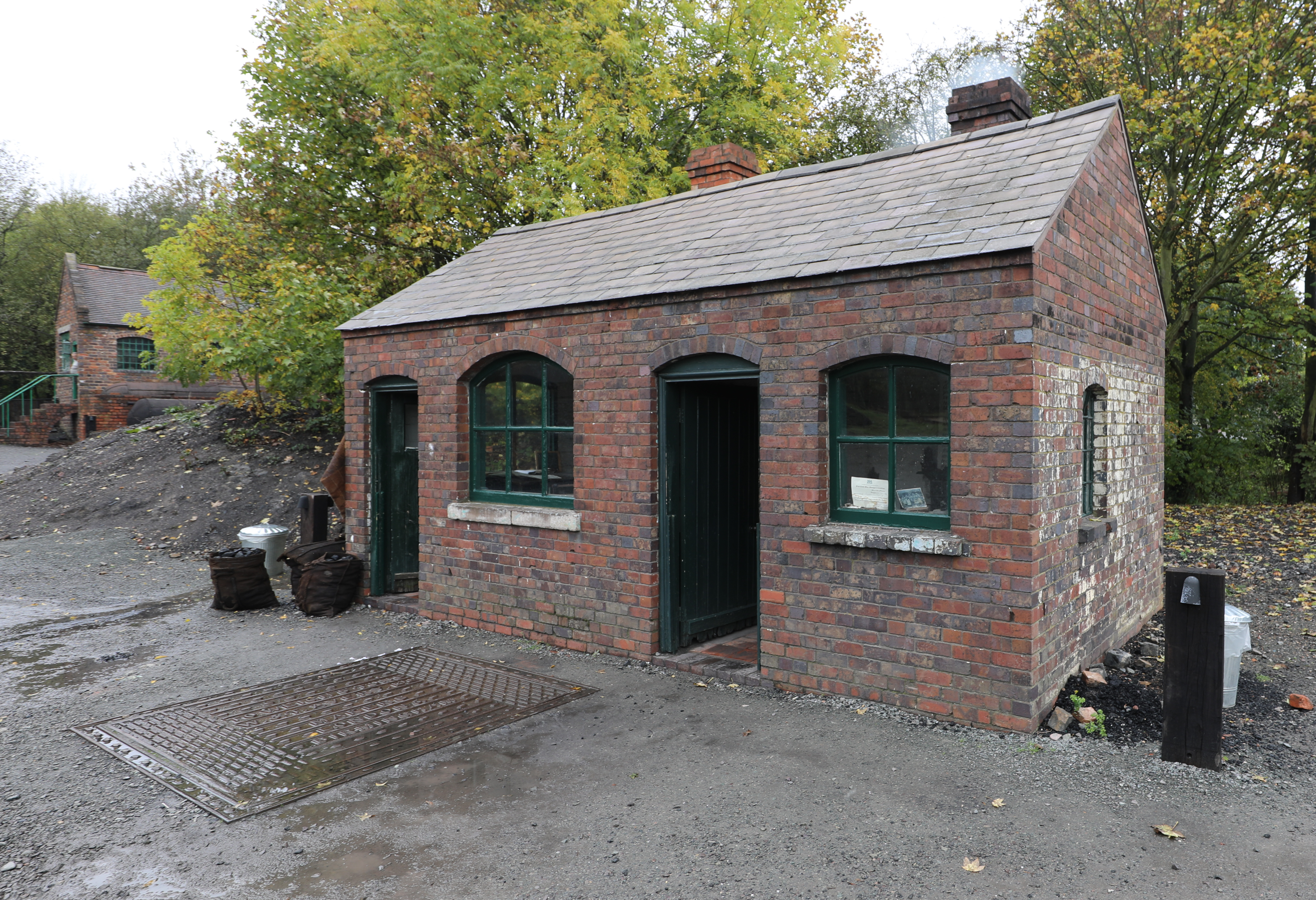 Photo of the Weighbridge Office and Manager's Office at the blackcountry living museum's Racecourse Colliery